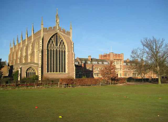 Broad Colney: All Saints Pastoral Centre The building on the right was completed in 1901 as a convent for the All Saints Sisters of the Poor, an Anglican order, to the design of Leonard Stokes. The Chapel on the left was added between 1921 and 1928 to the design of the renowned church architect, Sir Ninian Comper (1864-1960), and extended by his son Sebastian Comper between 1960 and 1964. It is therefore, unsurprisingly, known as the Comper Chapel. The whole building was acquired by the Roman Catholic Diocese of Westminster in 1973, and today caters for both residential and non-residential conferences, meetings and retreats, mainly from religious organizations.